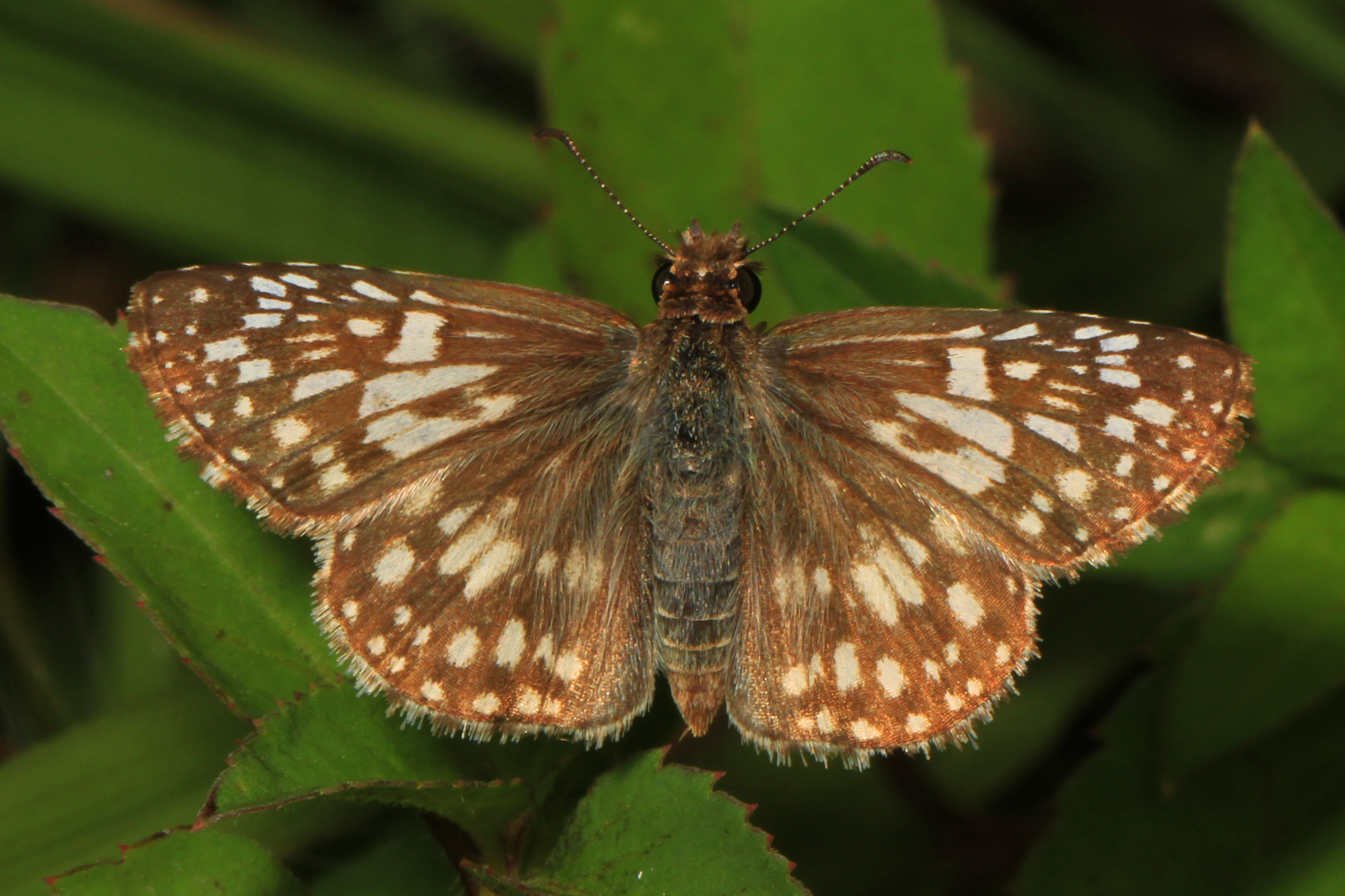 Tropical Checkered-skipper - Pyrgus oileus, Everglades National Park, Homestead, Florida